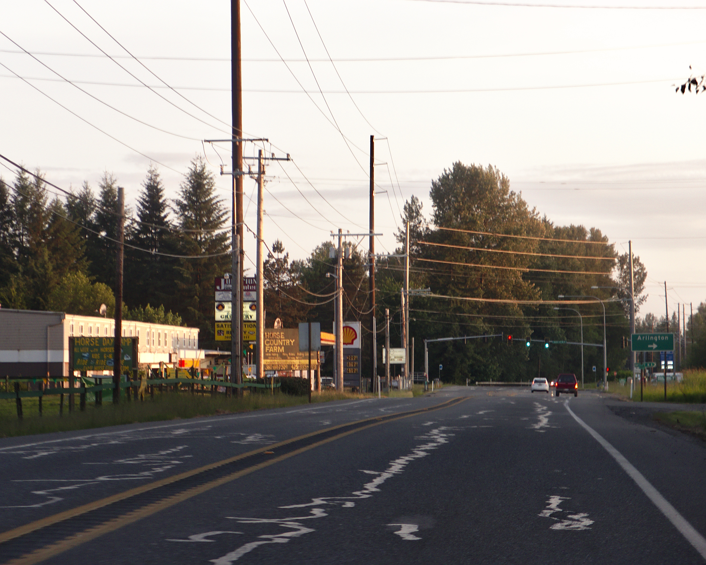 Driving southwest on Washington State Route 92 just north of 84th St NE in Snohomish County, Washington.